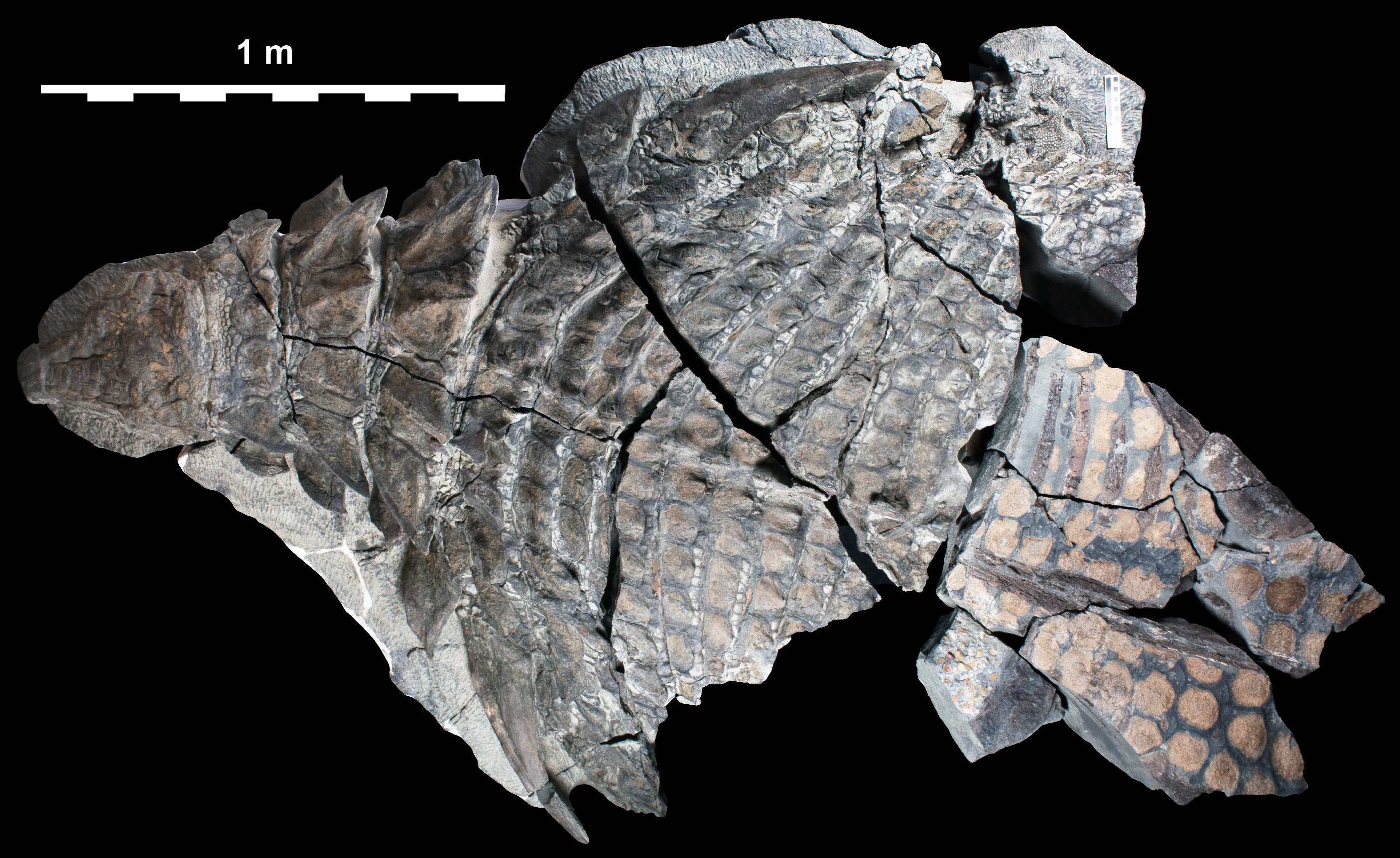 Single dorsal photograph of TMP 2011.033.0001. Sacral region represents original part—reflected counterpart shown in Fig. 4. Scale equals 1 m.